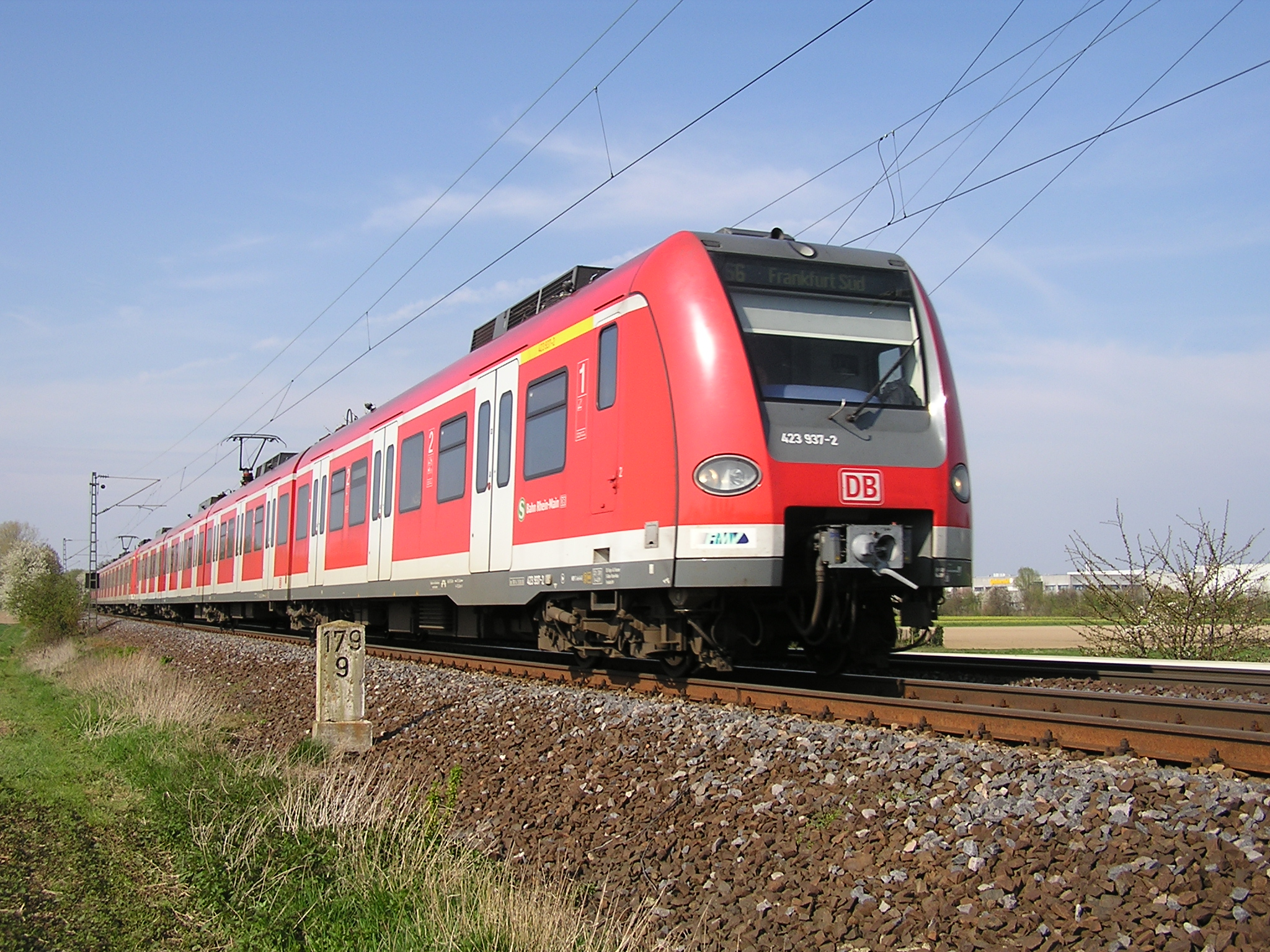 Two coupled EMUs Class 423 on the Main-Weser-Bahn as Line S6 to Frankfurt Süd.